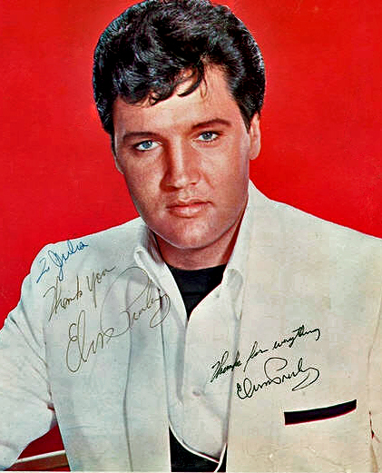 Publicity photo of Elvis Presley. Includes certified authentic autograph and all photo margins. No copyright stated.